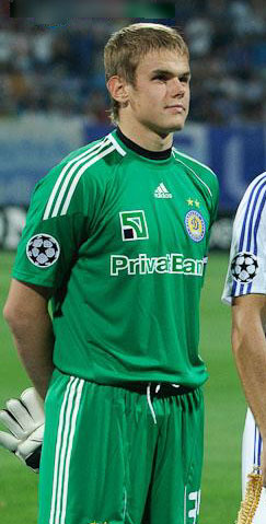 Maksym Koval, Ukrainian footballer, during the game for Dynamo Kyiv